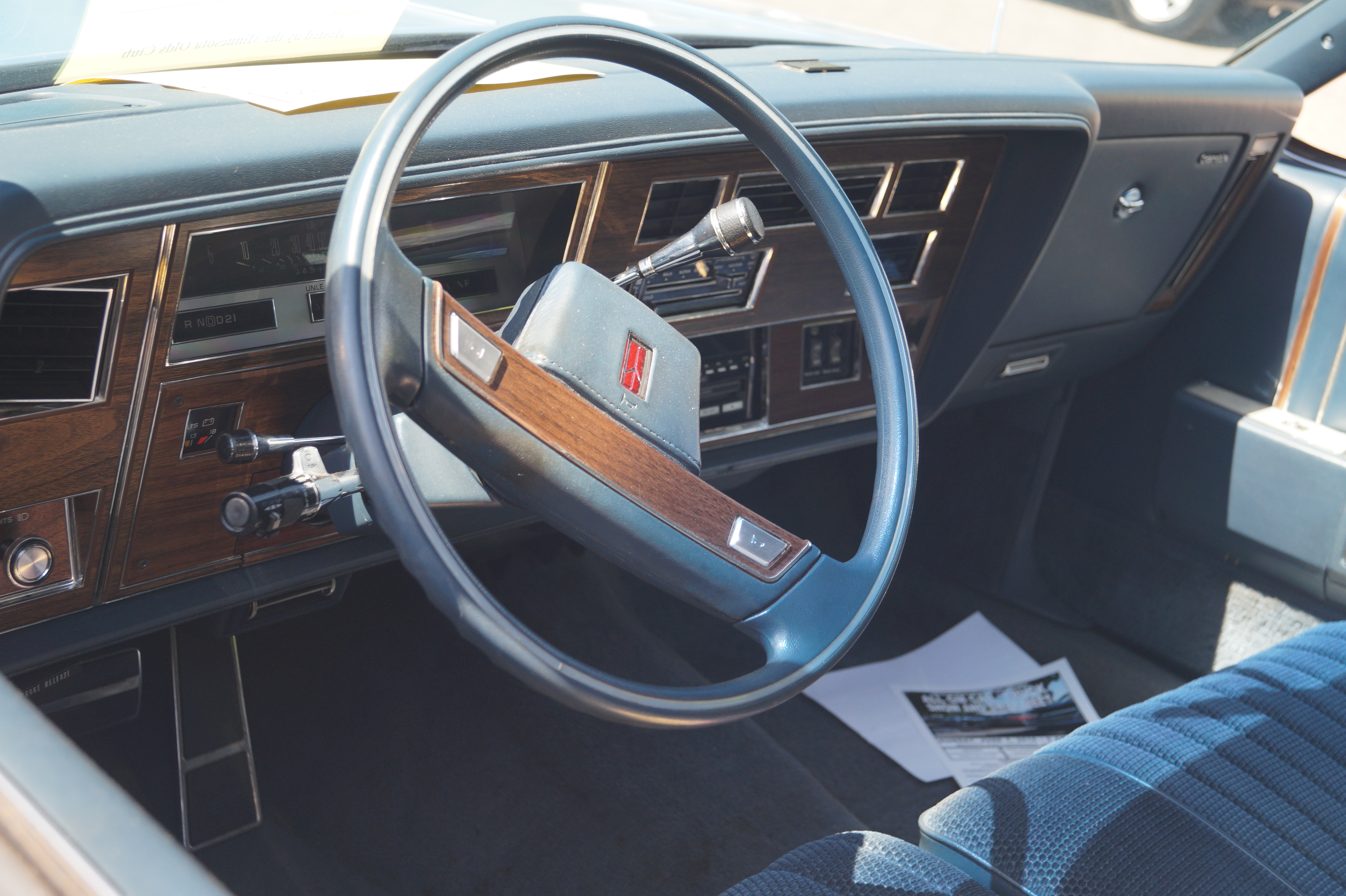 Click here for more car pictures at my Flickr site. Oldsmobile Club of America Minnesota Chapter 4th Annual Spring Dust Off Car Show & Swap Meet Unique Classics on 65 Ham Lake, Minnesota